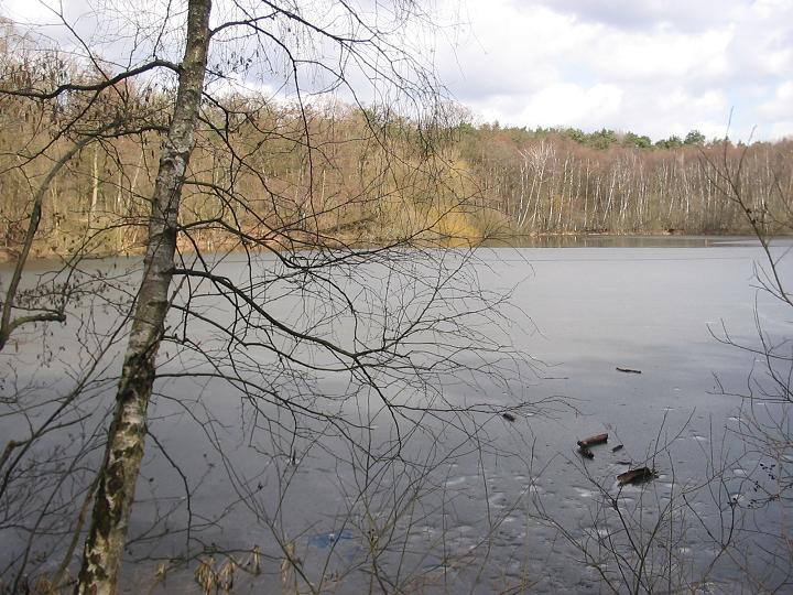 Teufelssee („Devils lake“) in Berlin-Treptow-Köpenick , under Müggelberge.